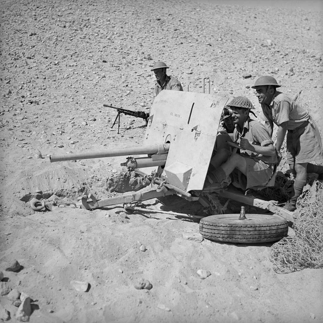 A 2 pounder anti tank gun in position, probably during 6 New Zealand Infantry Brigade manoeuvres at El Saff, Egypt, during World War II. New Zealand. Department of Internal Affairs. War History Branch :Photographs relating to World War 1914-1918, World War 1939-1945, occupation of Japan, Korean War, and Malayan Emergency. Ref: DA-01460-F. Alexander Turnbull Library, Wellington, New Zealand.